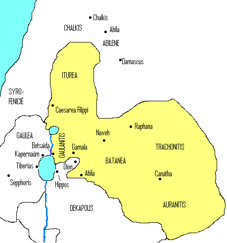 Iturea, Trachonitis, Batanea, Gaulanitis, Auranitis (also: Chalkis) in the first century C.E.